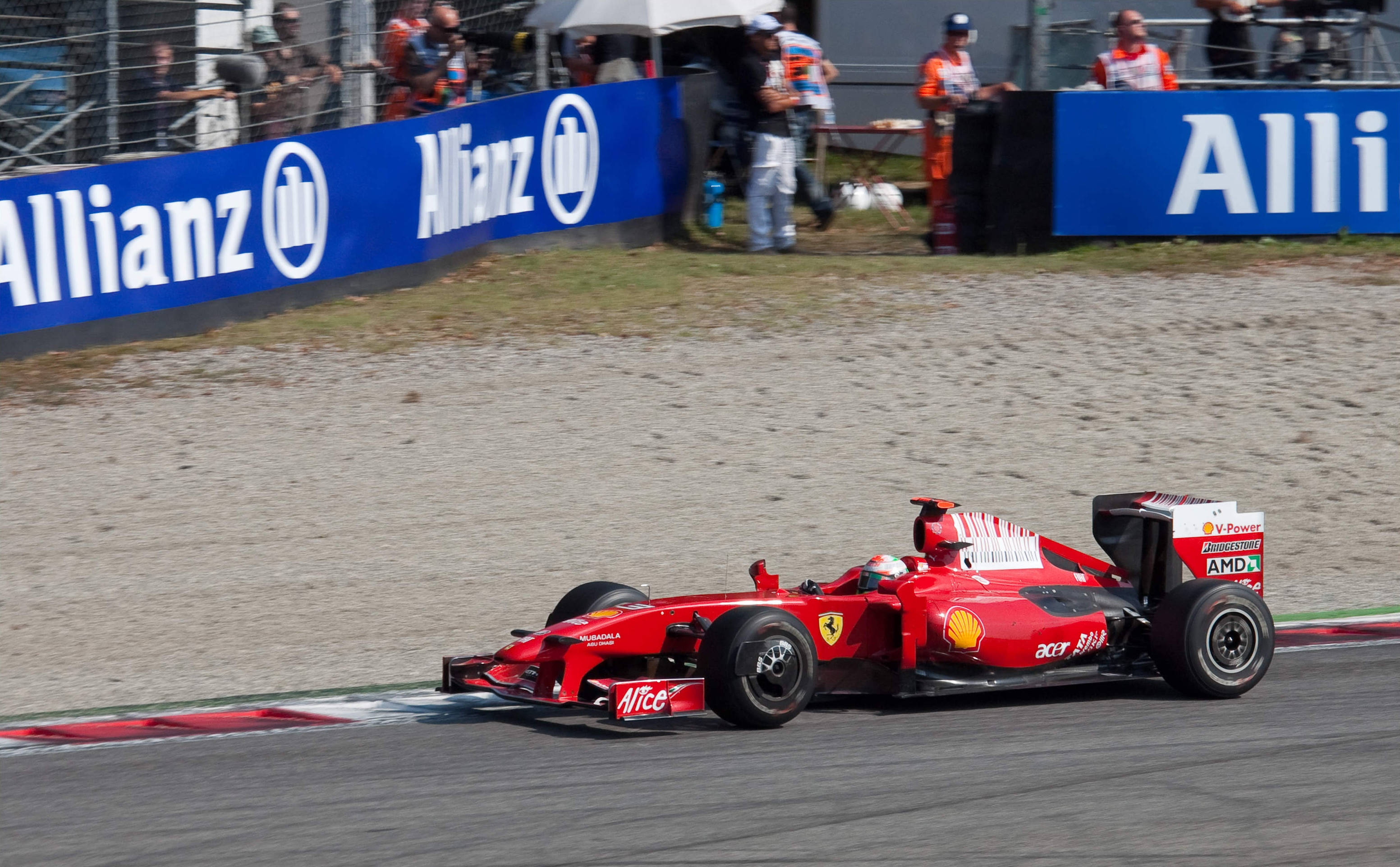 Giancarlo Fisichella driving for Scuderia Ferrari at the 2009 Italian Grand Prix.